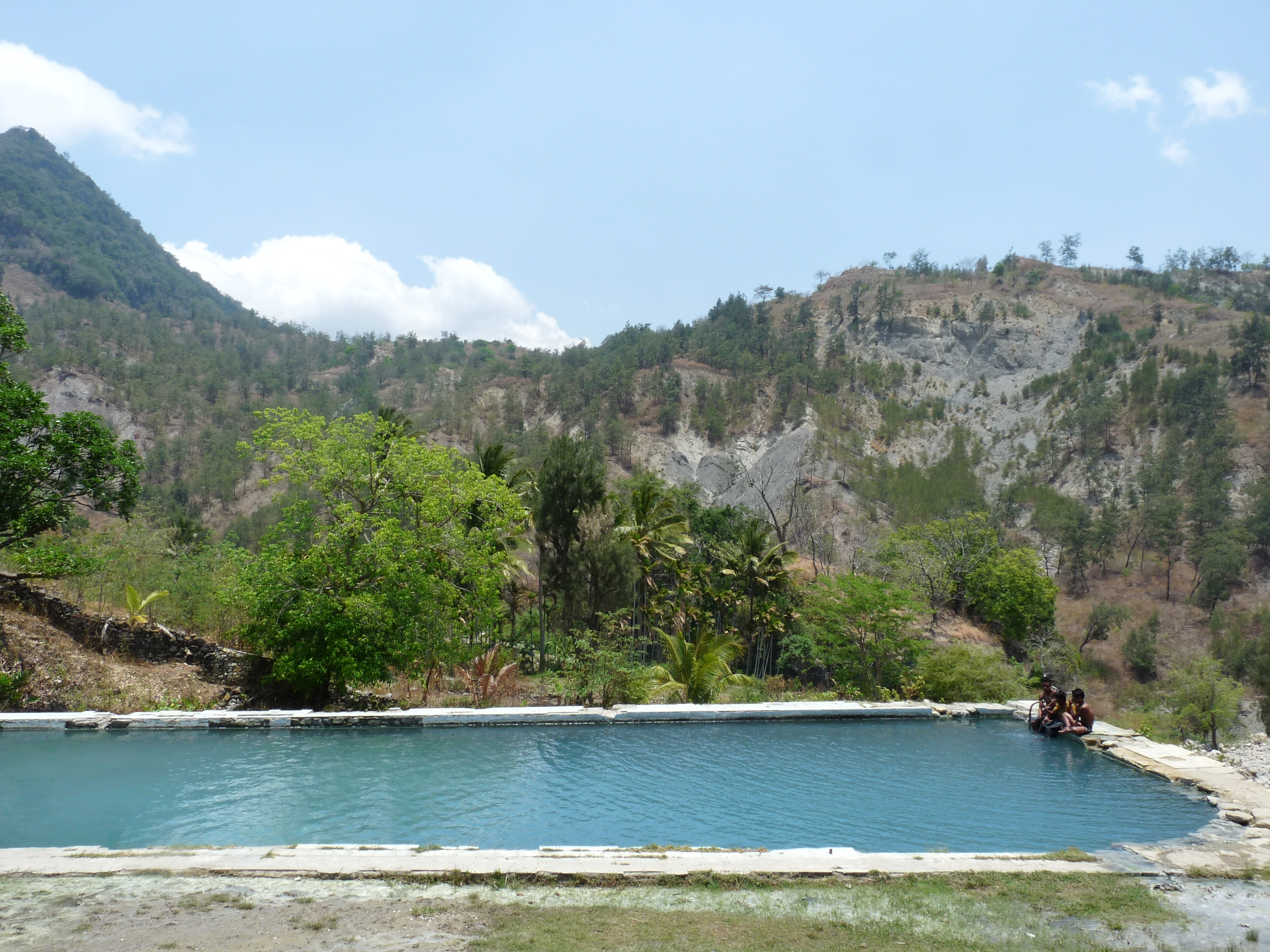 Marobo hot springs, Bobonaro, Timor-Leste